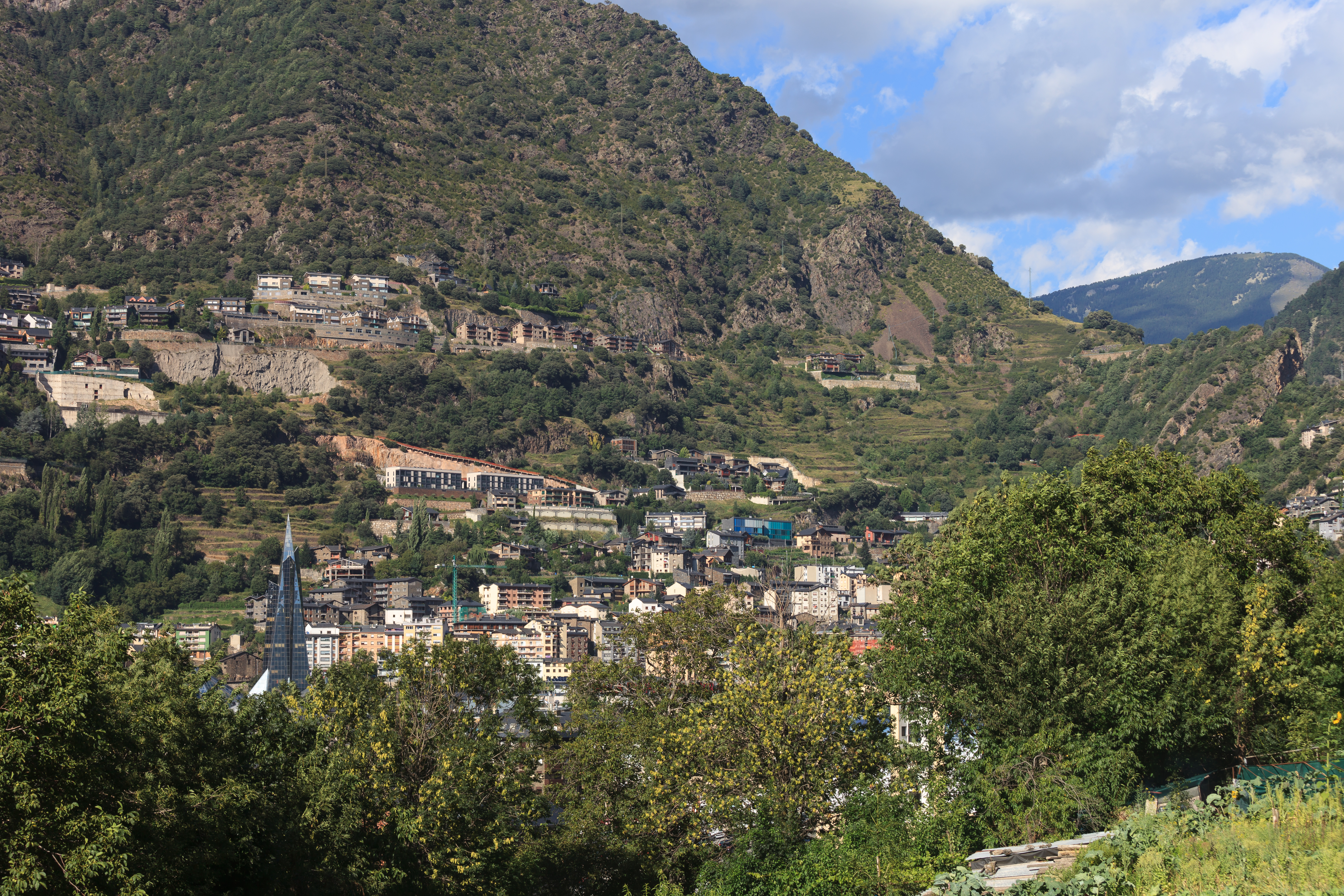 Mountains in Escaldes-Engordany, AndorraGalego: Montañas en Escaldes-Engordany, Andorra.